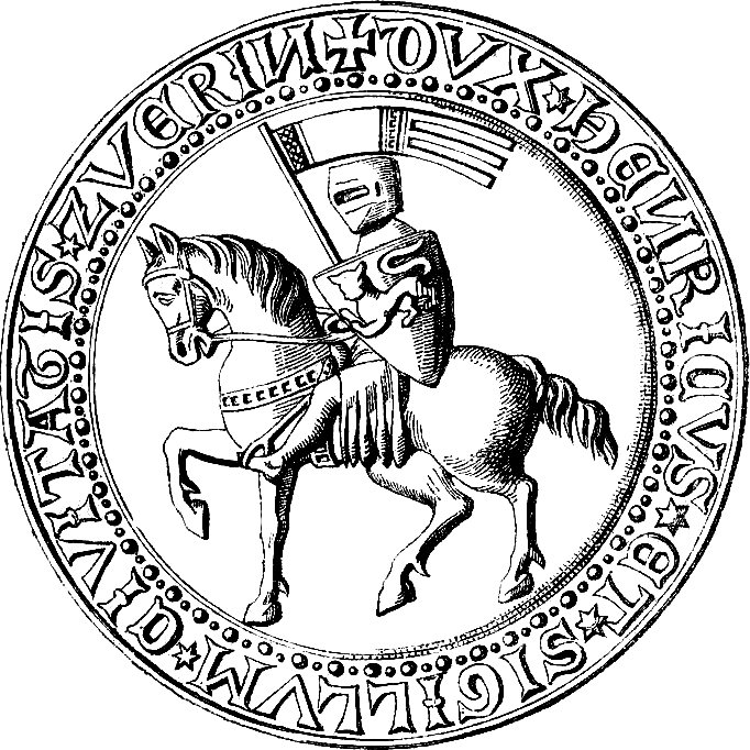 Seal of the city of Schwerin from the year 1255